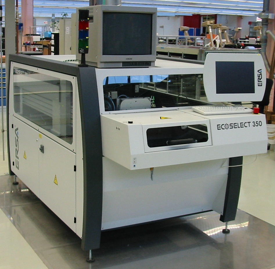 Selective soldering machine from Ersa company